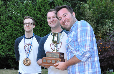 Brian Martin is awarded the Wile Cup by Corey Fischer, with Daryl Wile looking on.